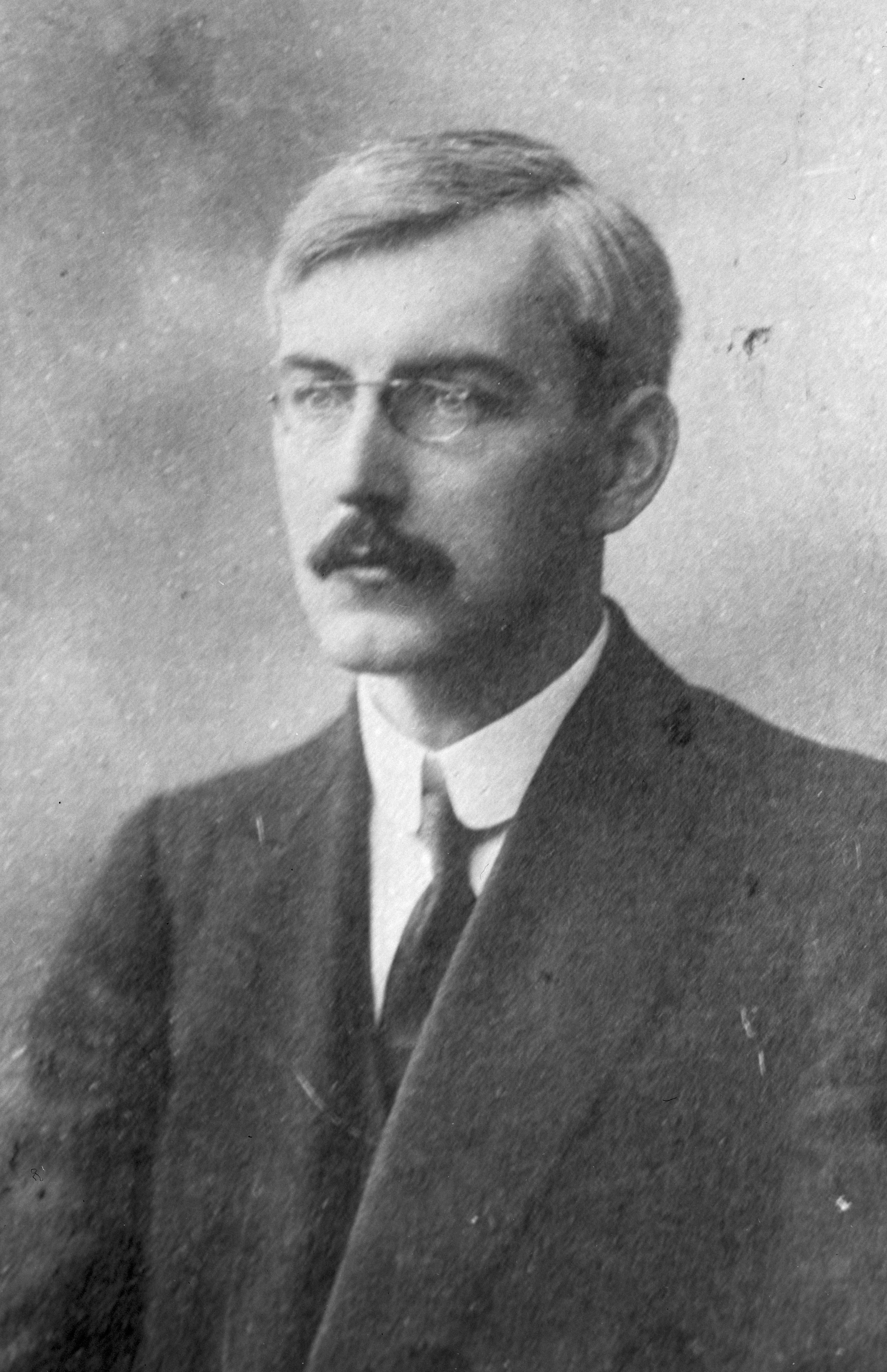 Head and shoulders portrait of Dr Harold Whitmore Williams, taken circa 1920s. Photographer unidentified.